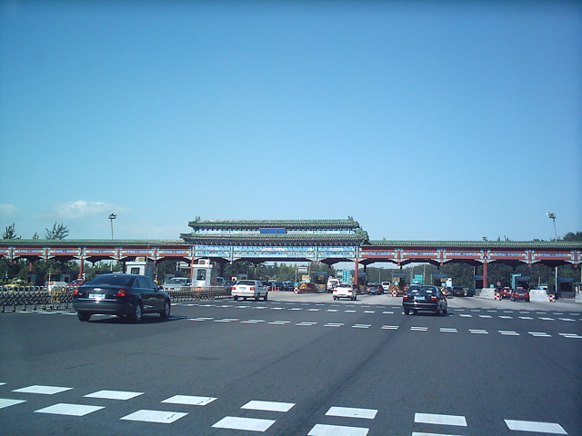 Beijing Airport Expwy Toll Station